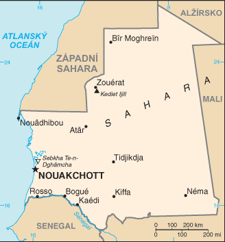 Map of Mauritania with Czech description.